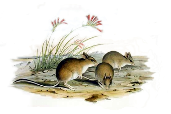 Notomys mitchellii (orig. Hapalotis mitchelli)